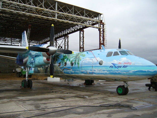 Antonov An-24 of Pecotox Air